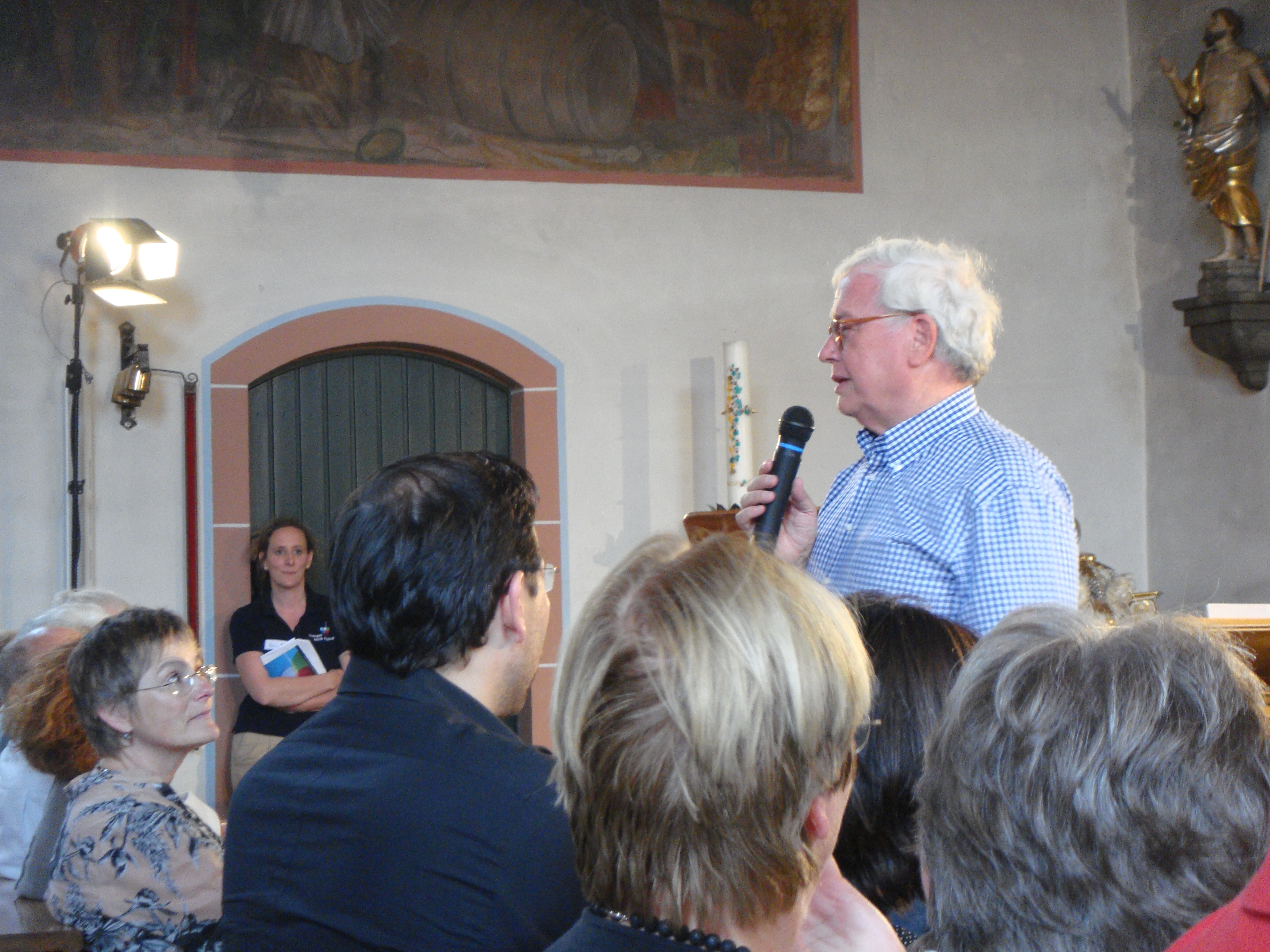 Rheingau Musik Festival 16 July 2011, Michael Herrmann annoucing a concert with Andreas Scholl and members of the Accademia Bizantina at the church in Hallgarten